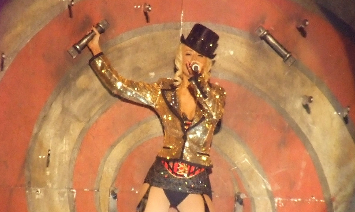 A edit version of this image